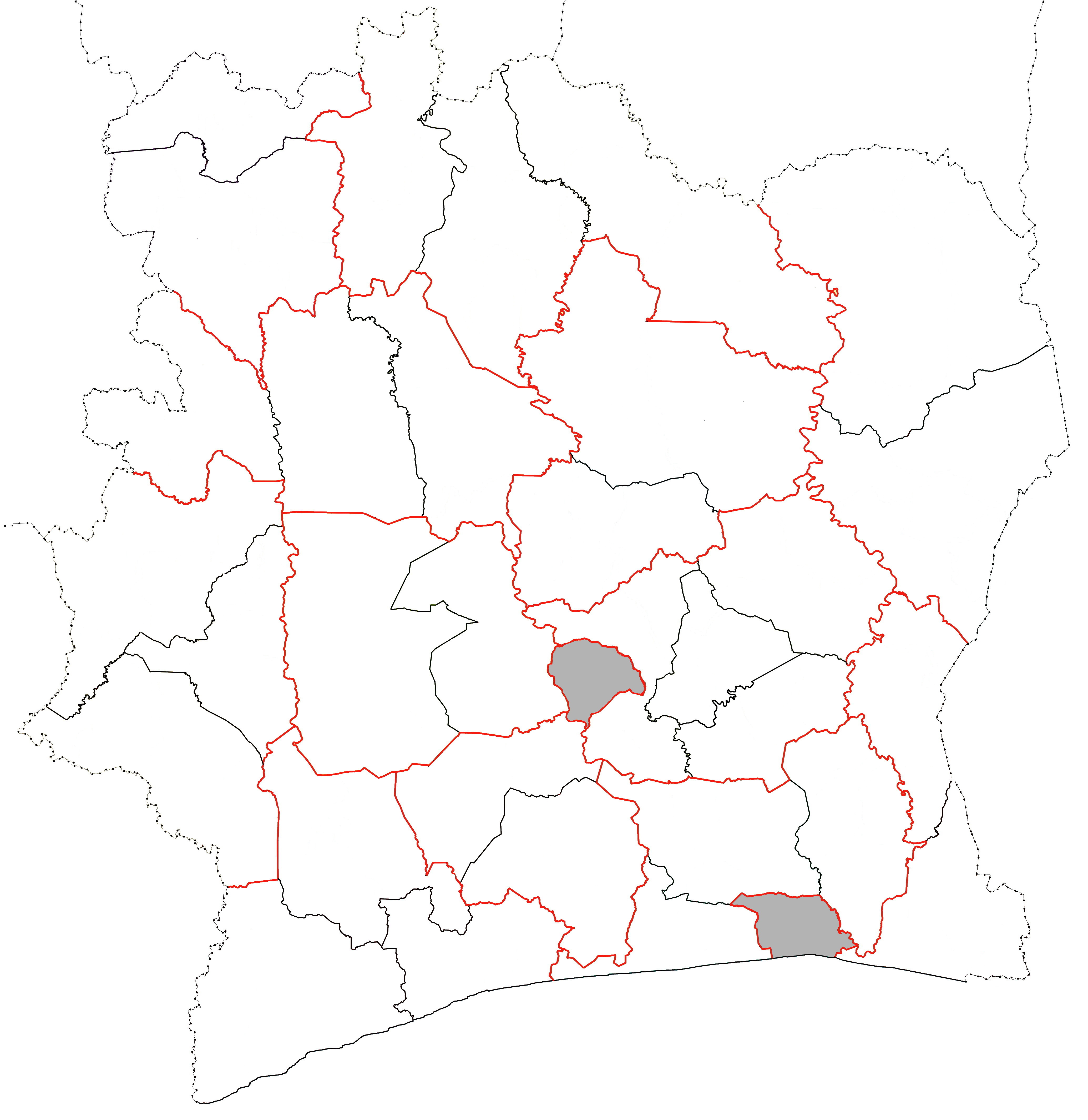 Blank map of the regions of Côte d'Ivoire. These regions are the regions instituted in 2011–12 as second-level administrative subdivisions. District borders are marked in red. The autonomous districts, which are not regions nor divided into regions, are in grey.